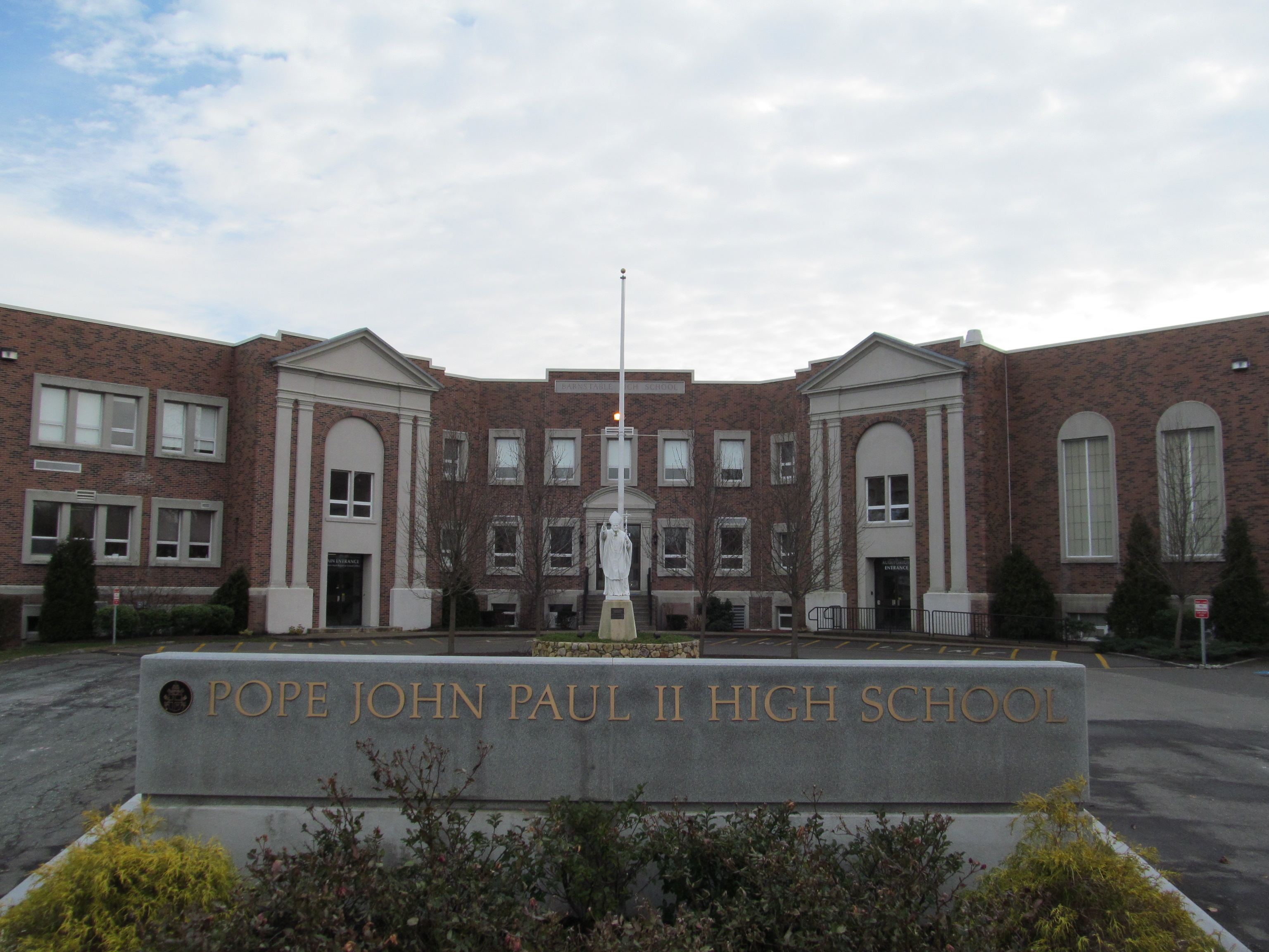 Pope John Paul II High School, Hyannis Massachusetts